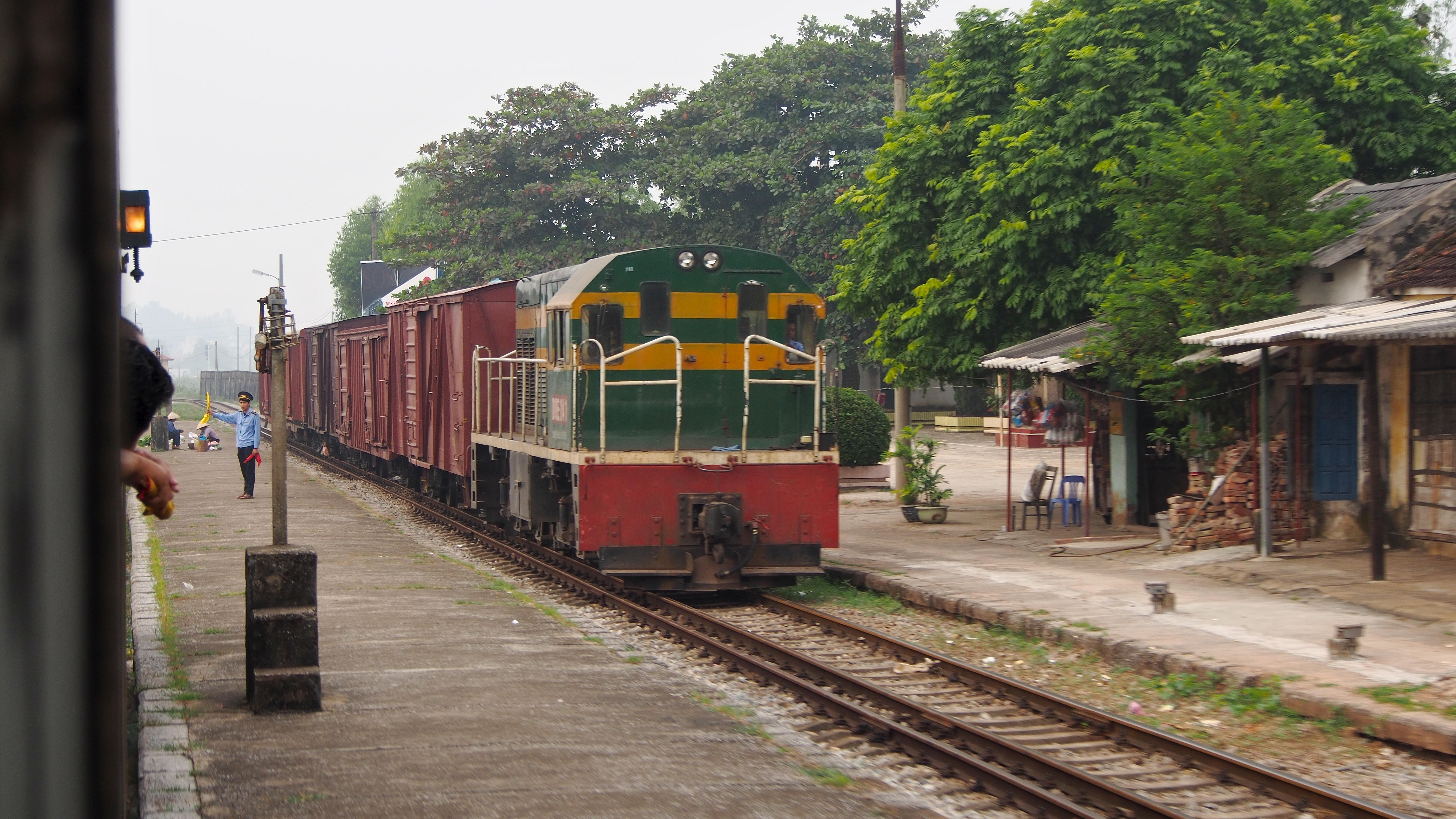 On the Dong Dang to Hanoi portion of the Beijing to Hanoi service. The freight loco is a GE D10. The line from Dong Dang is dual gauge and hosts a daily thru standard gauge passenger train from Nanning China.